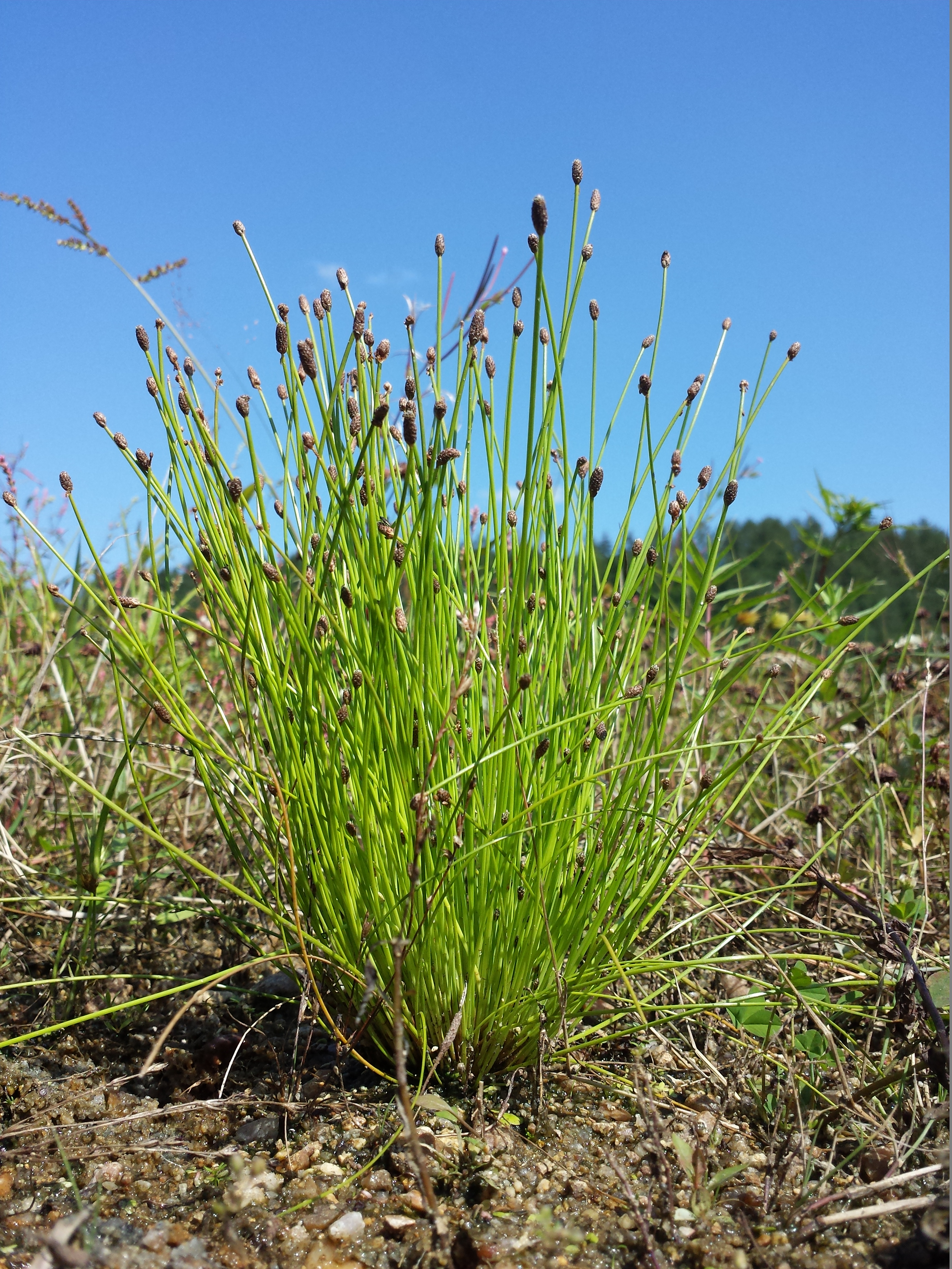 Habitus Taxonym: Eleocharis ovata ss Fischer et al. EfÖLS 2008 ISBN 978-3-85474-187-9 Location: Žárský rybník, Jihočeský kraj, Czech Republic - ca. 500 m a.s.l. Habitat: ground of a pond